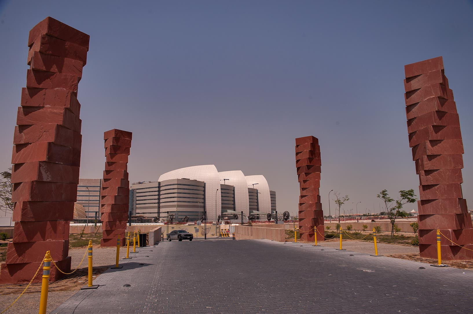 Entrance to Georgetown University in Education City, Qatar overlooking Sidra Hospital.